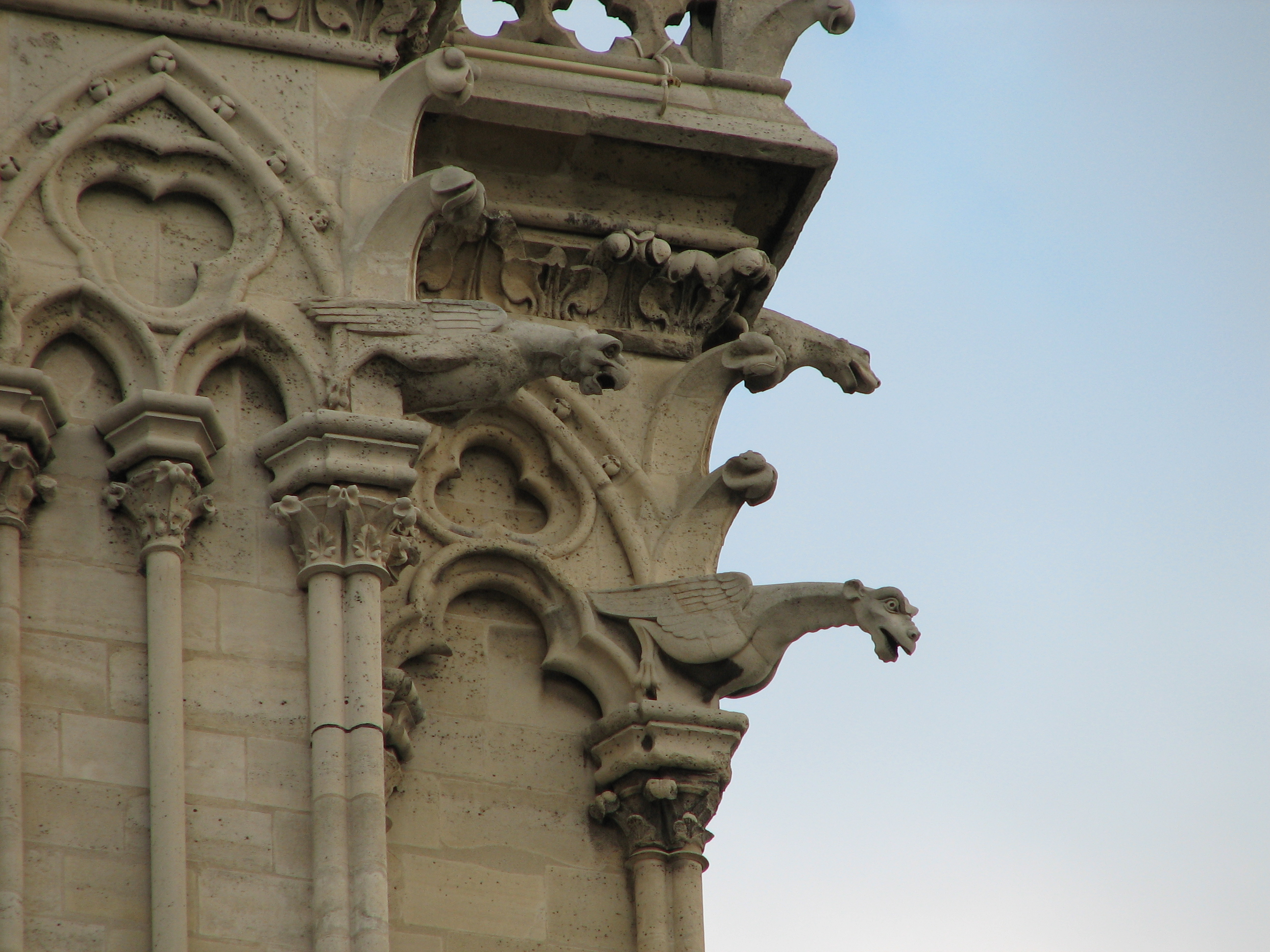 Three gargoyles at the South-West angle of Notre-Dame de Paris. Photo taken by Milvus the 8th of September, 2005.